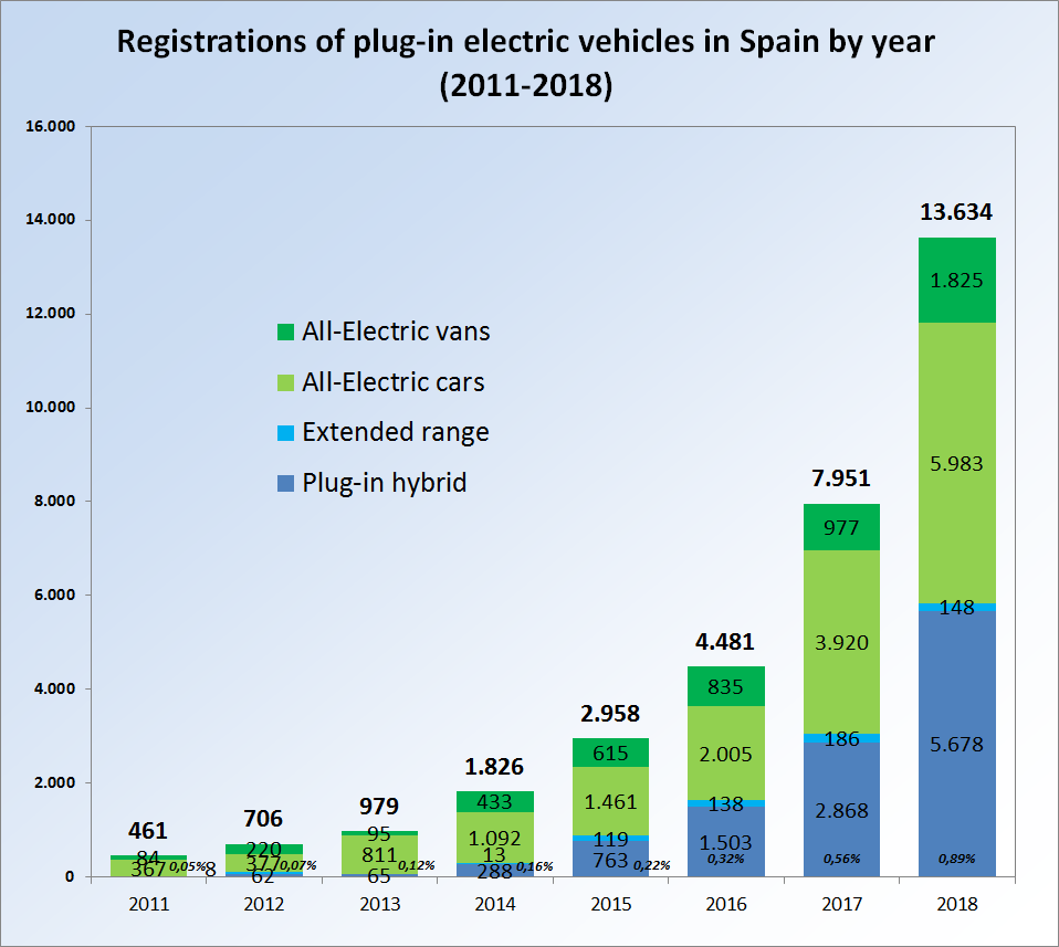 Plug-in electric vehicle registrations in Spain by year between 2010 and 2017.